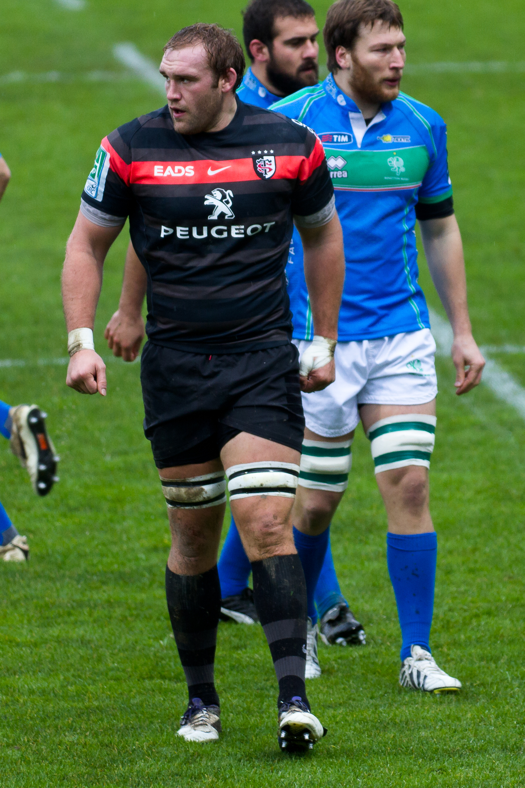 Heineken Cup - 13 January 2013 - Stade Ernest-Wallon - Match between: Stade toulousain - Benetton Rugby Treviso Romain Millo-Chluski, Stade toulousain vs Benetton Rugby, Heineken Cup, January 13th 2013